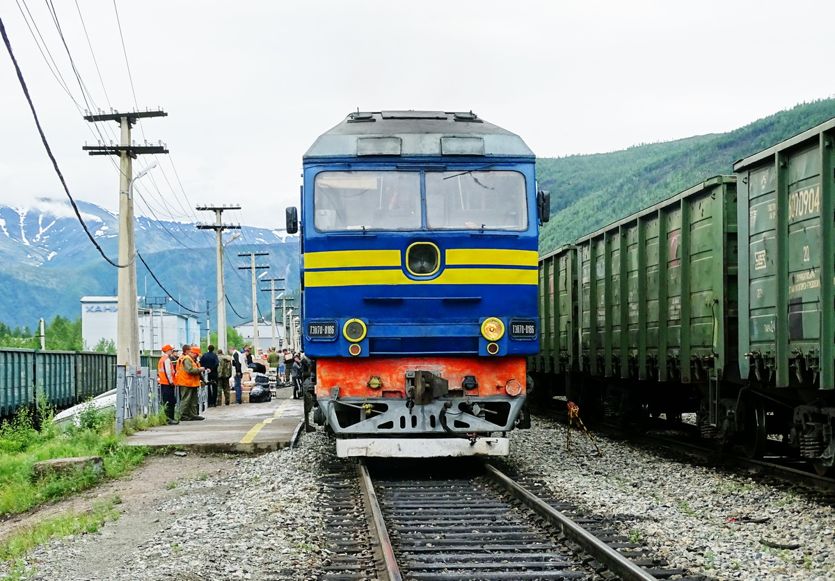 Diesel locomotive TEP70-0186. Russia, Yakutia, Khani station